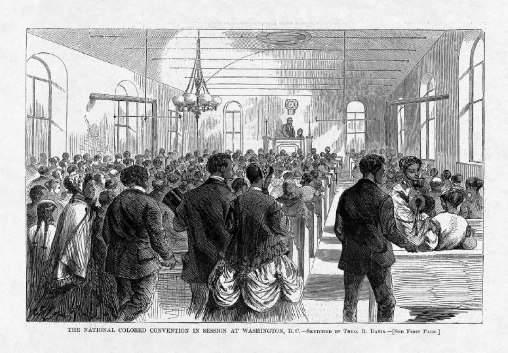 Illustration for article on the National Convention of Colored Men meeting in Washington, D.C., January 13, 1869